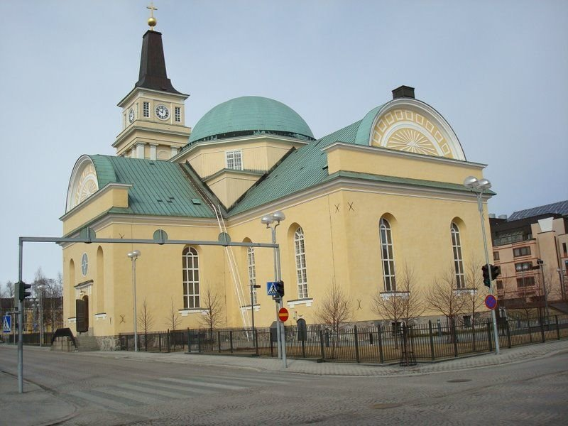 Oulu City Church Oulu Pradeep Gudipati Apri 2008.